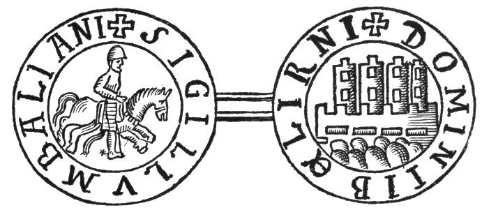 Balian of Ibelin